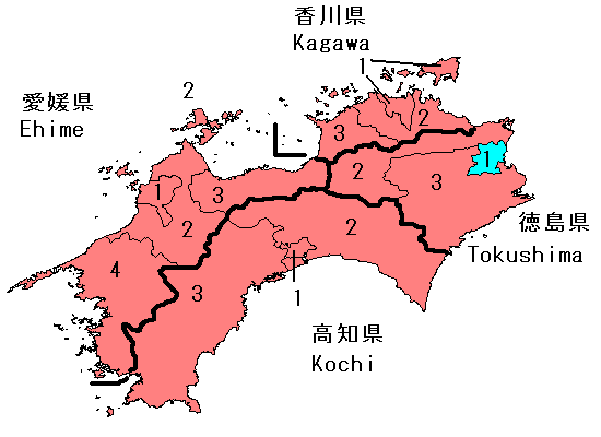 Presentation of the results of the Japan general election, 2003 in the single member districts of the Shikoku block, based on district boundary information in :ja:衆議院小選挙区一覧 and mapping tools provided by Japanese Wikipedia User Koba-chan. Color codes: LDP - red DPJ - light blue New Komeito - green SDP - purple New Conservative Party - dark blue Other/Independent - gray Some independent politicians joined major parties immediately after the election, and their districts are marked with a colored square around the number. This is also true for the members of the New Conservative Party, which was wholly subsumed into the LDP.